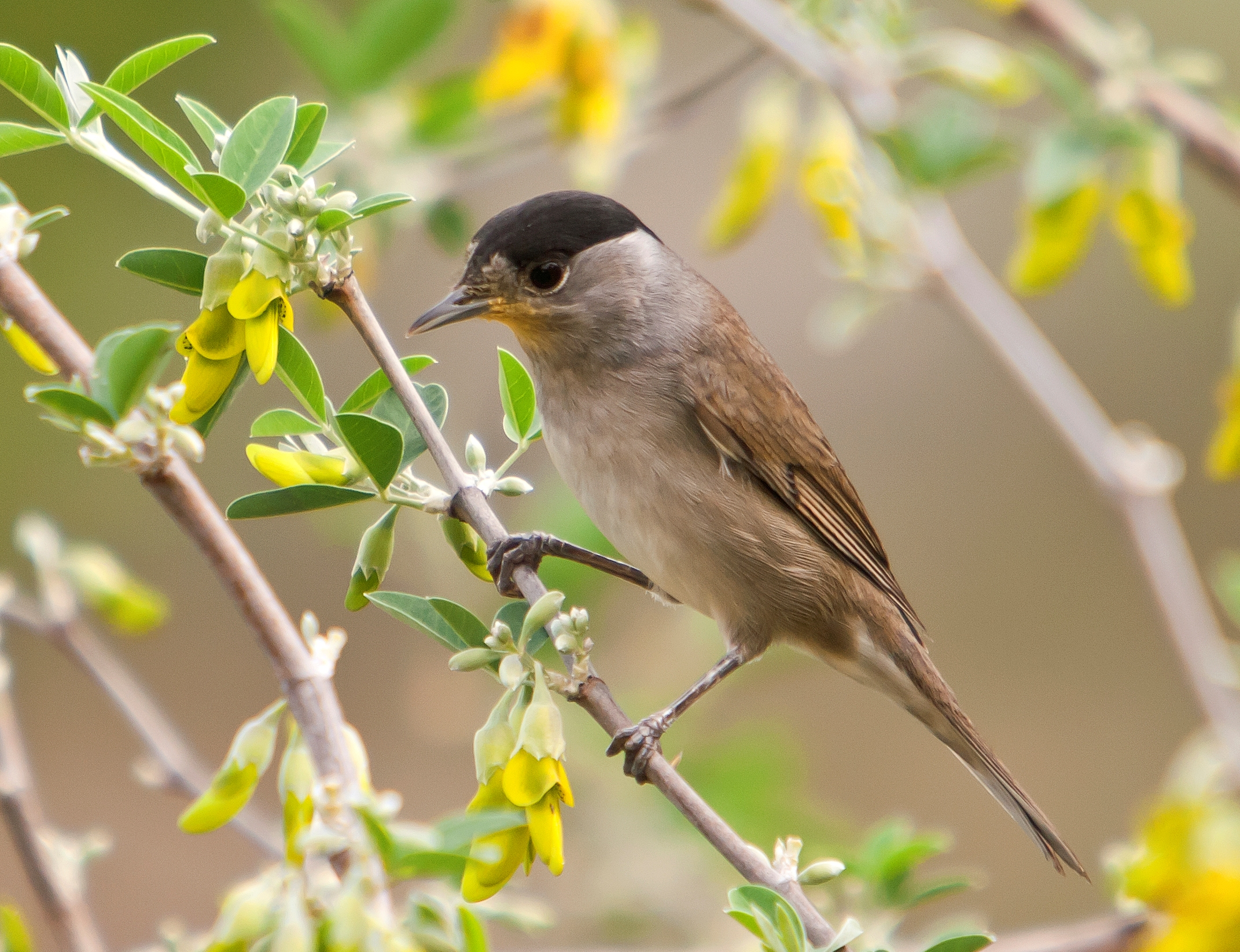 An adult male Eurasian Blackcap in the Canary Islands, Spain. Curruca Capirotada. (♂)